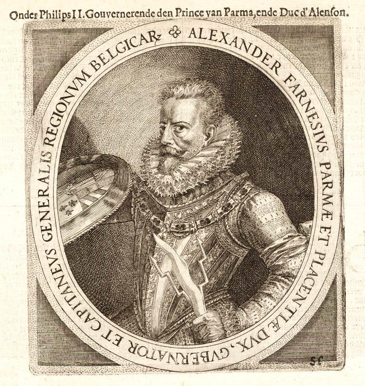 Alessandro Farnese, Duke of Parma